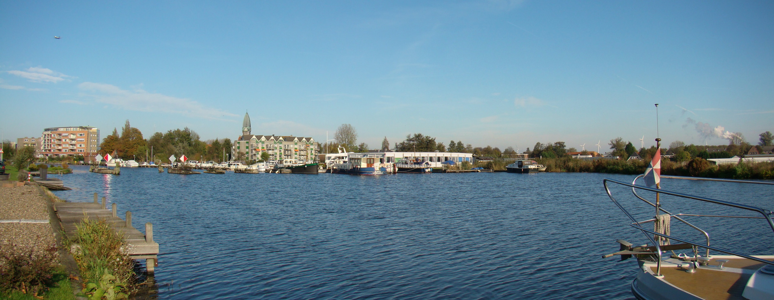 halfweg, panoramic view